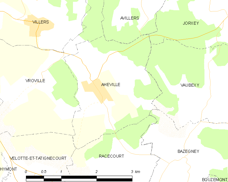 Map of French municipality Ahéville